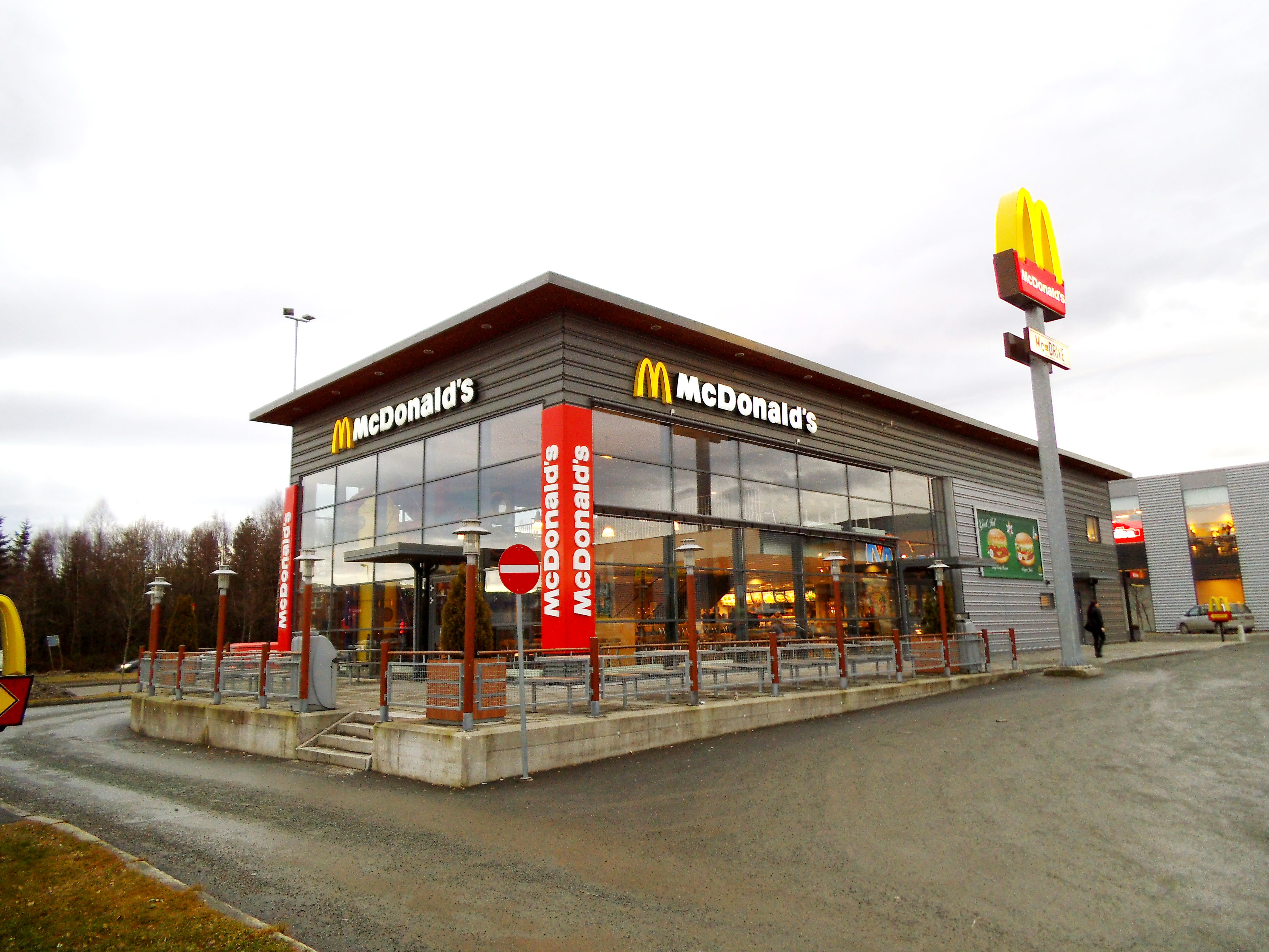 A McDonald's in Tiller, Trondheim. Built in 2006. It was the biggest drive-in-restaurant in Europe at that time.